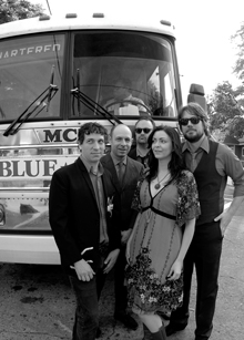 Blue Giant embarking on their 3 day tour of Portland.